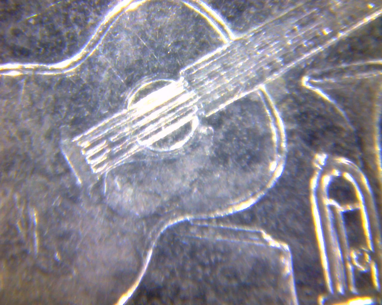 A close up of the Tennessee State Quarter, showing only 5 strings on the guitar.